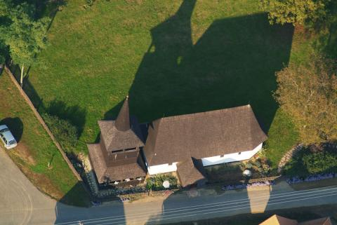 Tákos, Hungary, aerialphotography